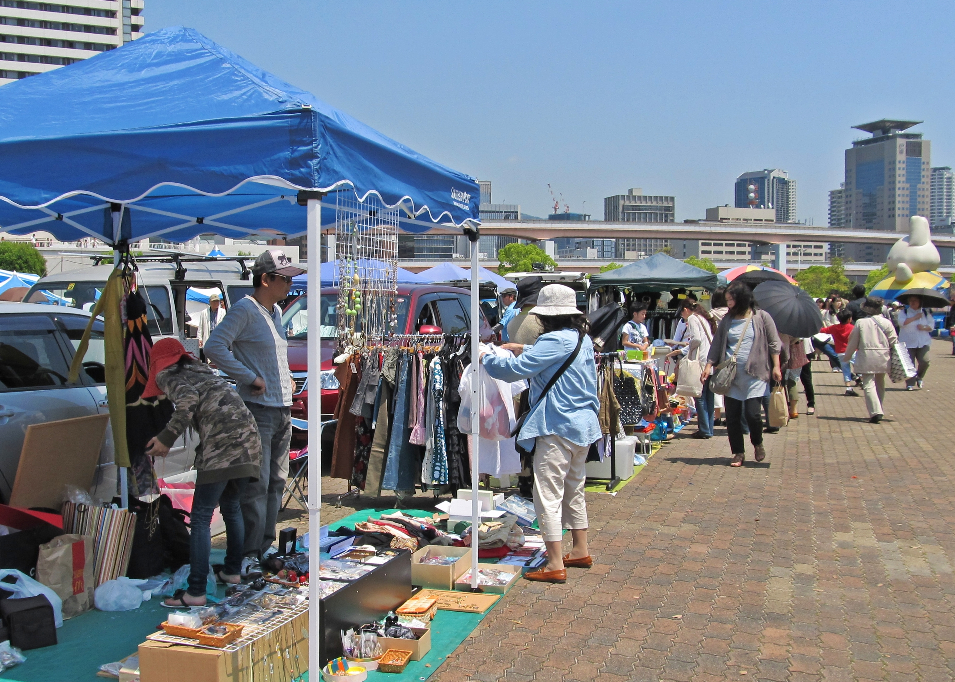 Flea market at KOBE Meriken Festa 2012(Meriken Park,Chūō-ku,Kobe,Hyogo,Japan)